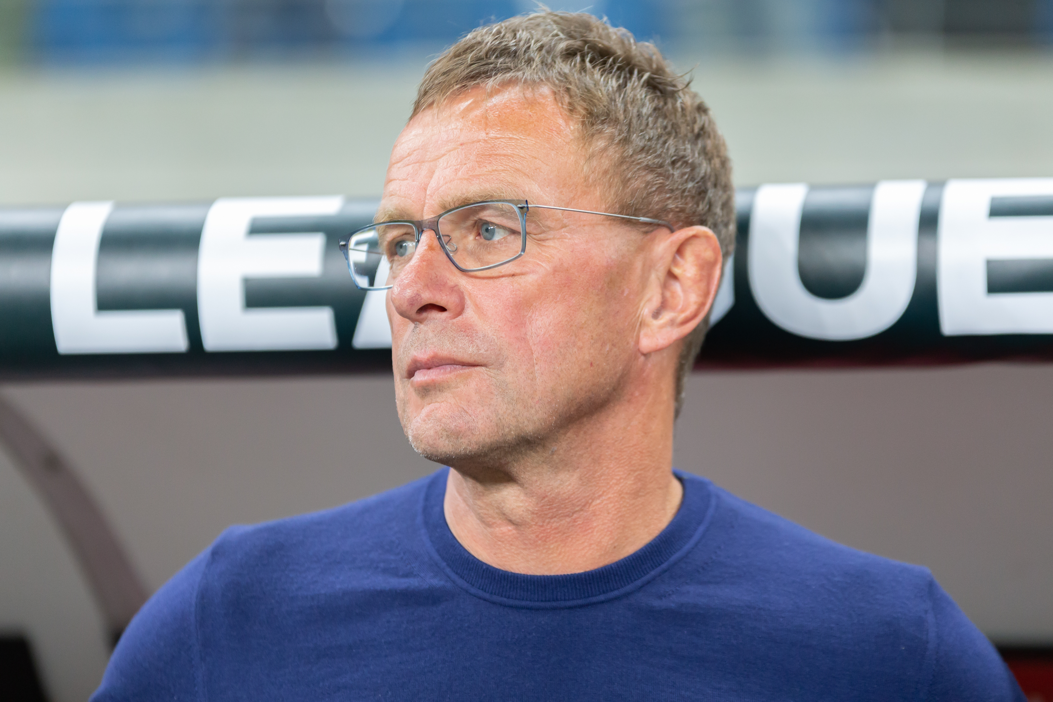 Ralf Rangnick (RB Leipzig, head coach) before the game